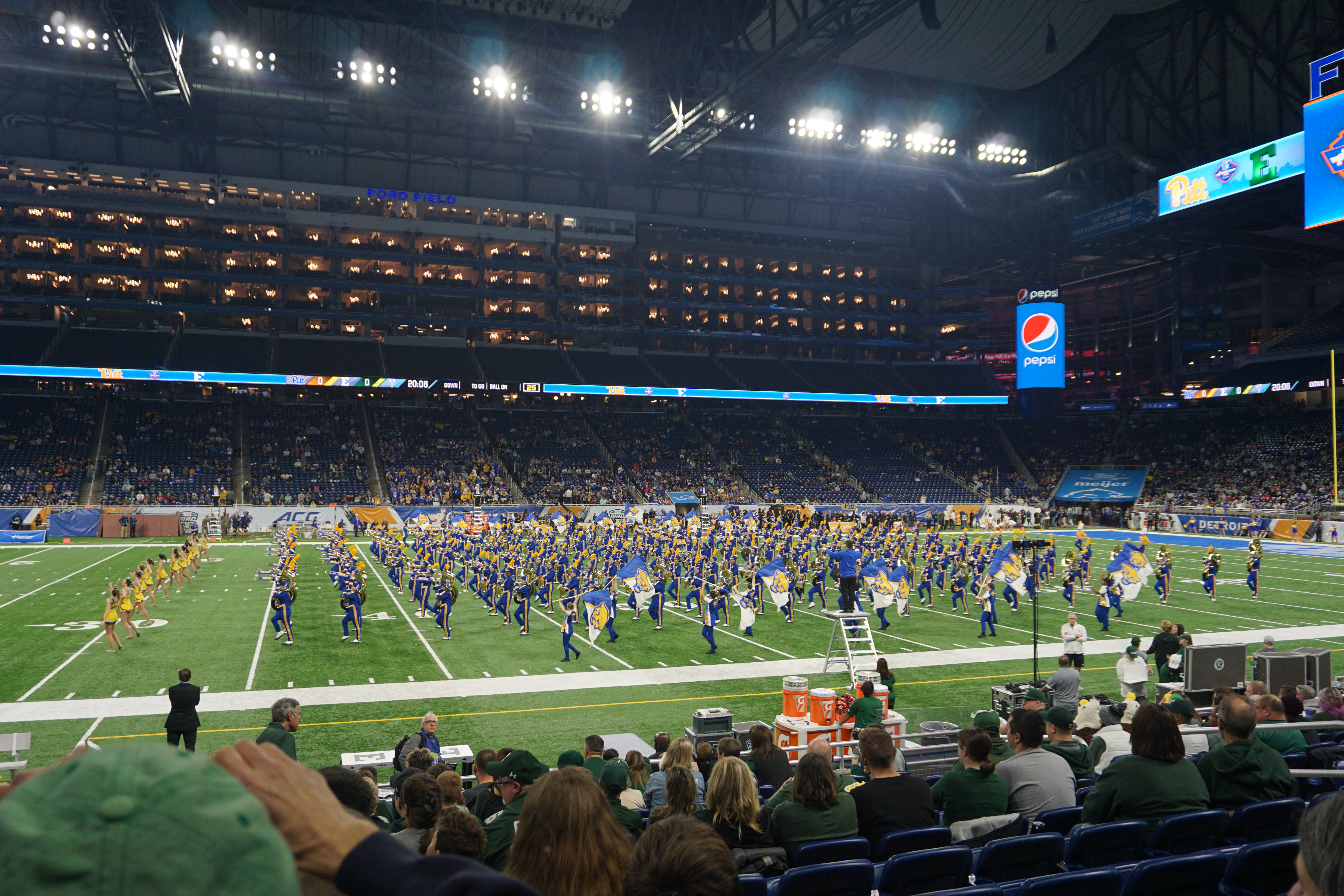 The University of Pittsburgh Varsity Marching Band performing before the 2019 Quick Lane Bowl (Pittsburgh Panthers vs. Eastern Michigan Eagles) at Ford Field in Detroit, Michigan (United States). Pittsburgh won 34–30.